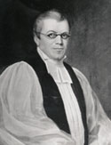 Depicted person: John Henry Hobart – Episcopal Bishop of New York